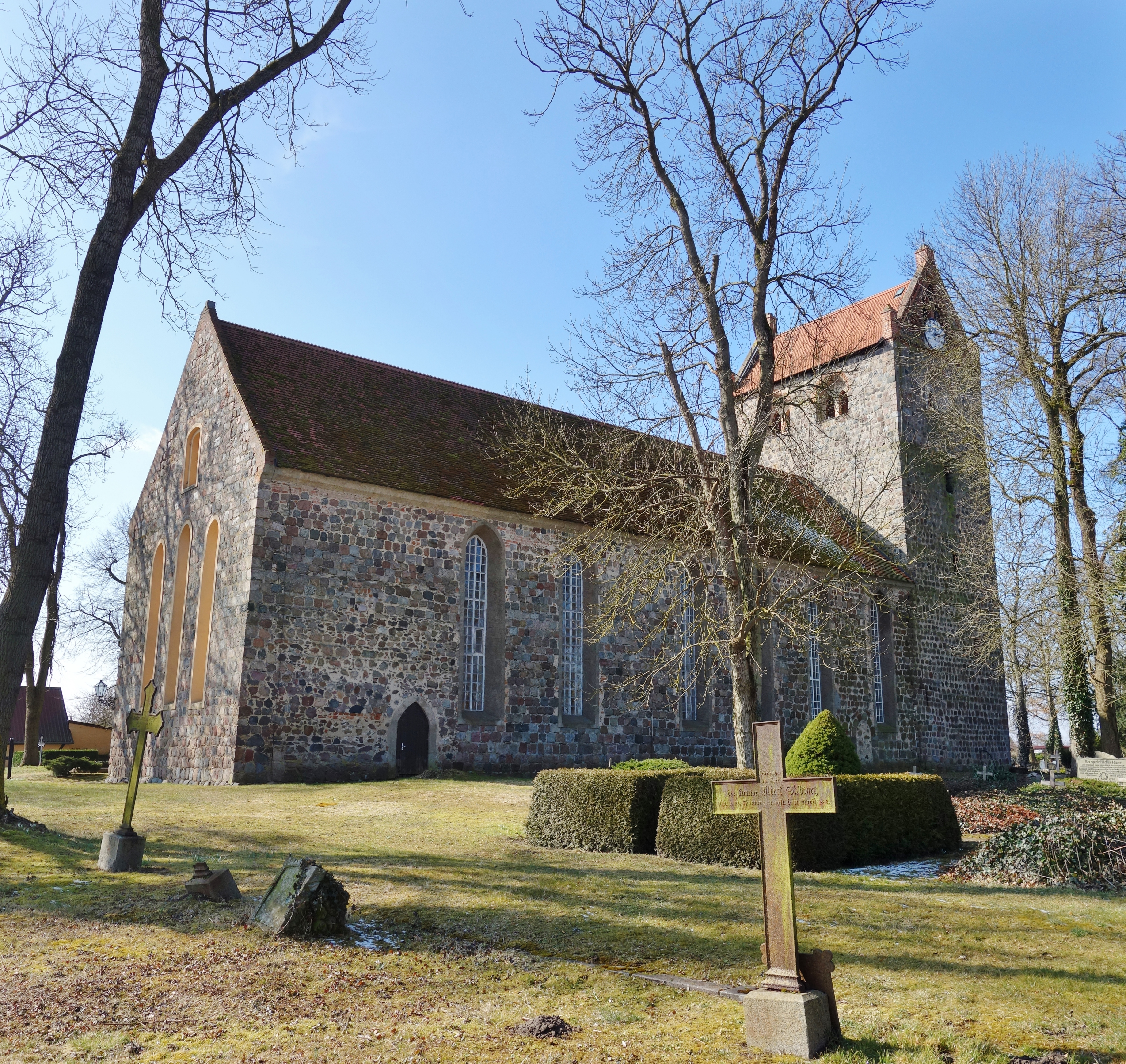 North-eastern view of St.Mary's church in Gramzow , Gramzow municipality , Uckermark district, Brandenburg state, Germany.